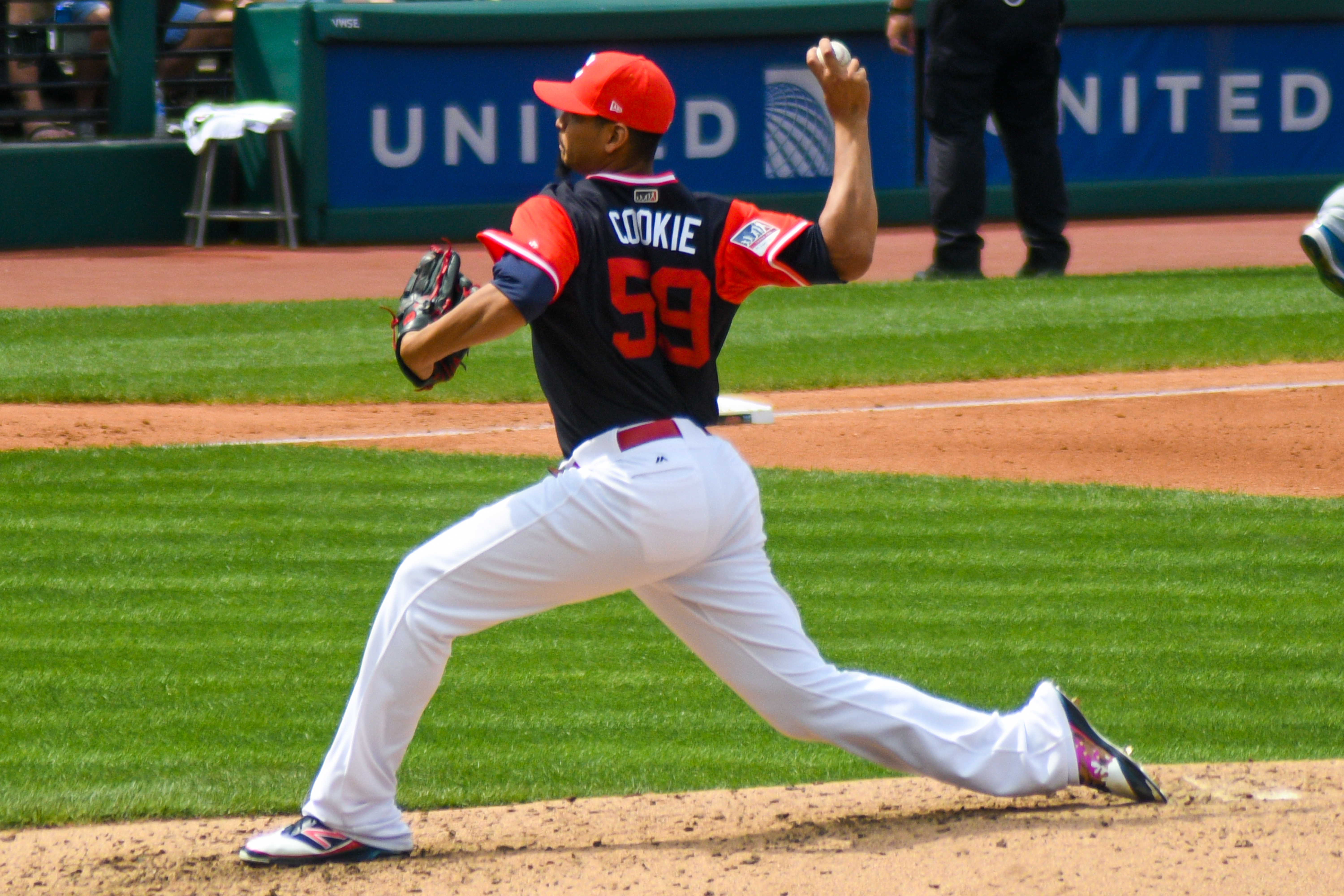 Carlos Carrasco of the Cleveland Indians wears the nickname "Cookie" on MLB Players Weekend